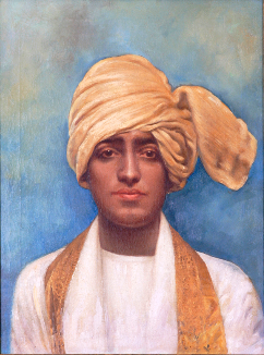 Painting of Jiddu Krishnamurti by Costa Rican painter. Povedano died in 1943. All his works are now in the public domain, according to American and Costa Rican law (75 years after the author's death).